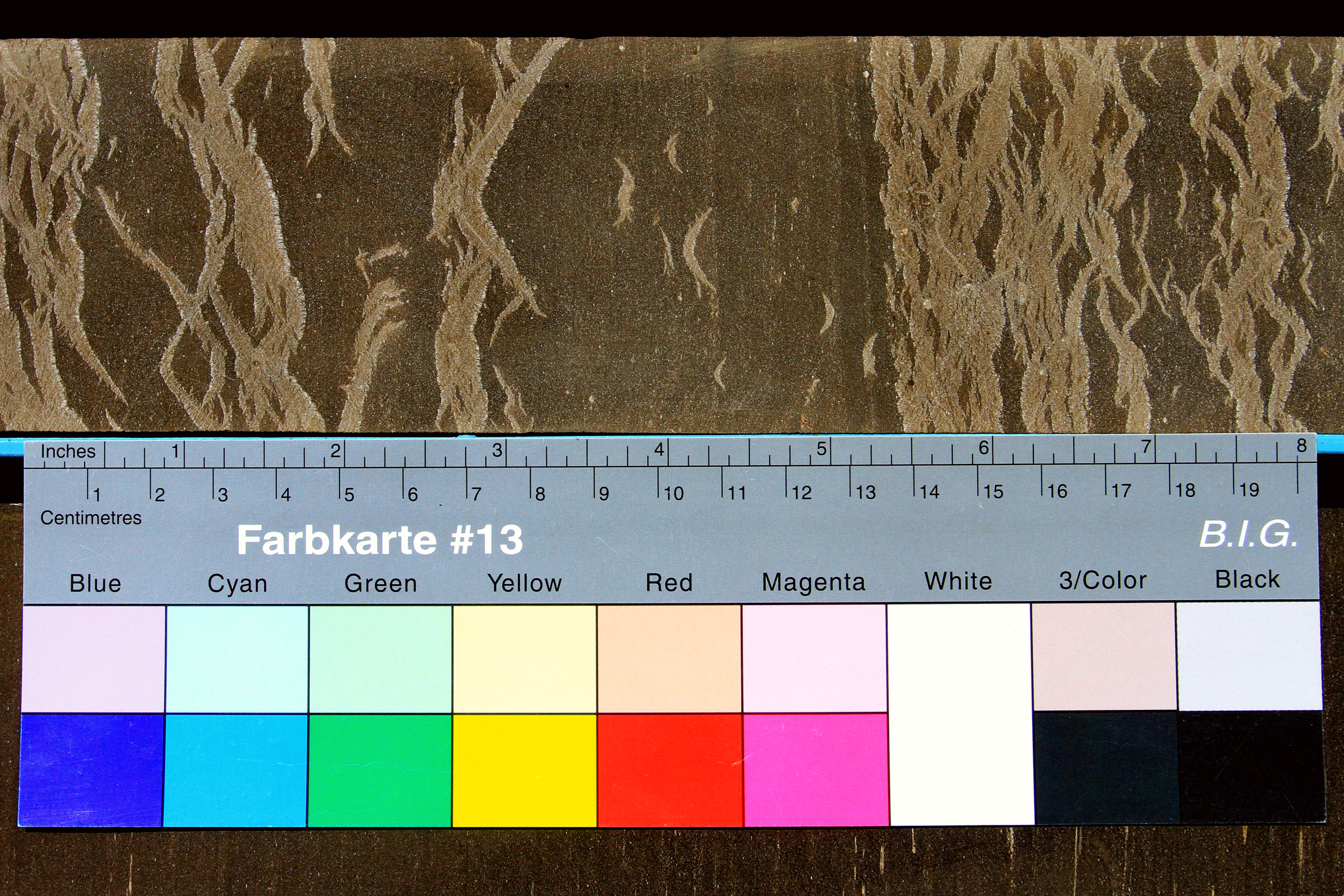 Jordan Oil Shale layer named "Tiger"